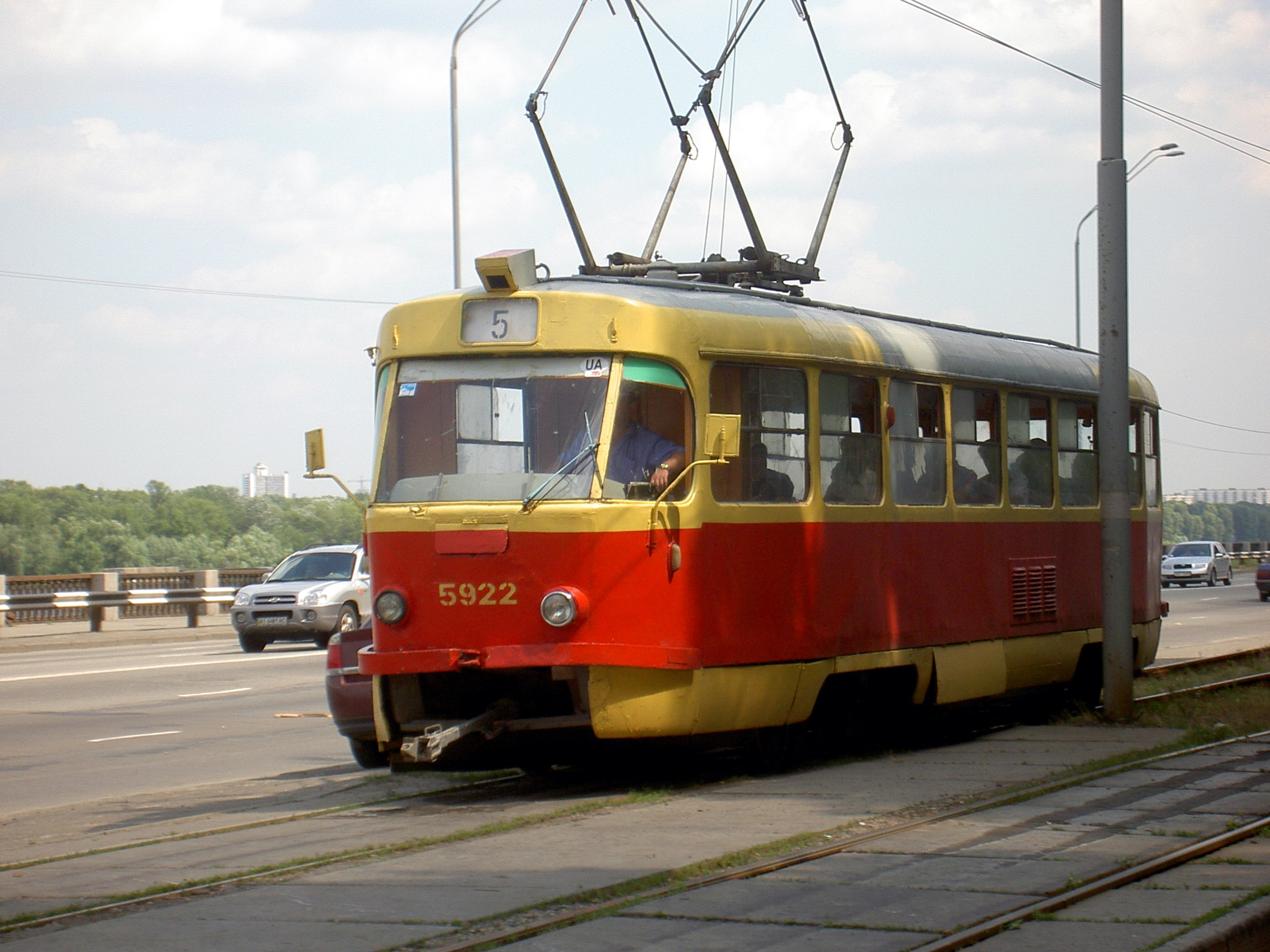 Tatra T3 in Kiev